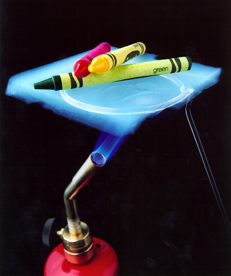 Crayons on aerogel, with a flame underneath. A demonstration of aerogel's insulation properties.